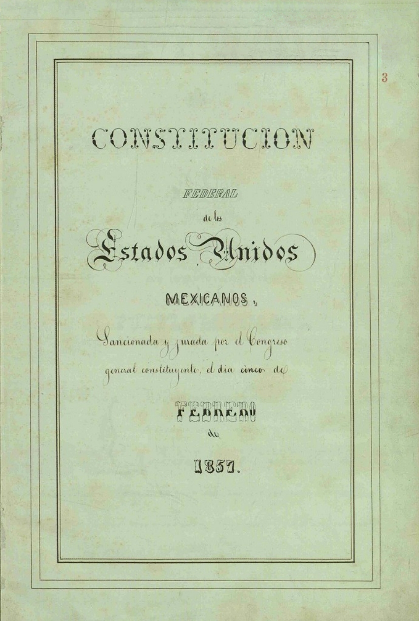 Original inside cover of the Federal Constitution of the United Mexican States of 1857